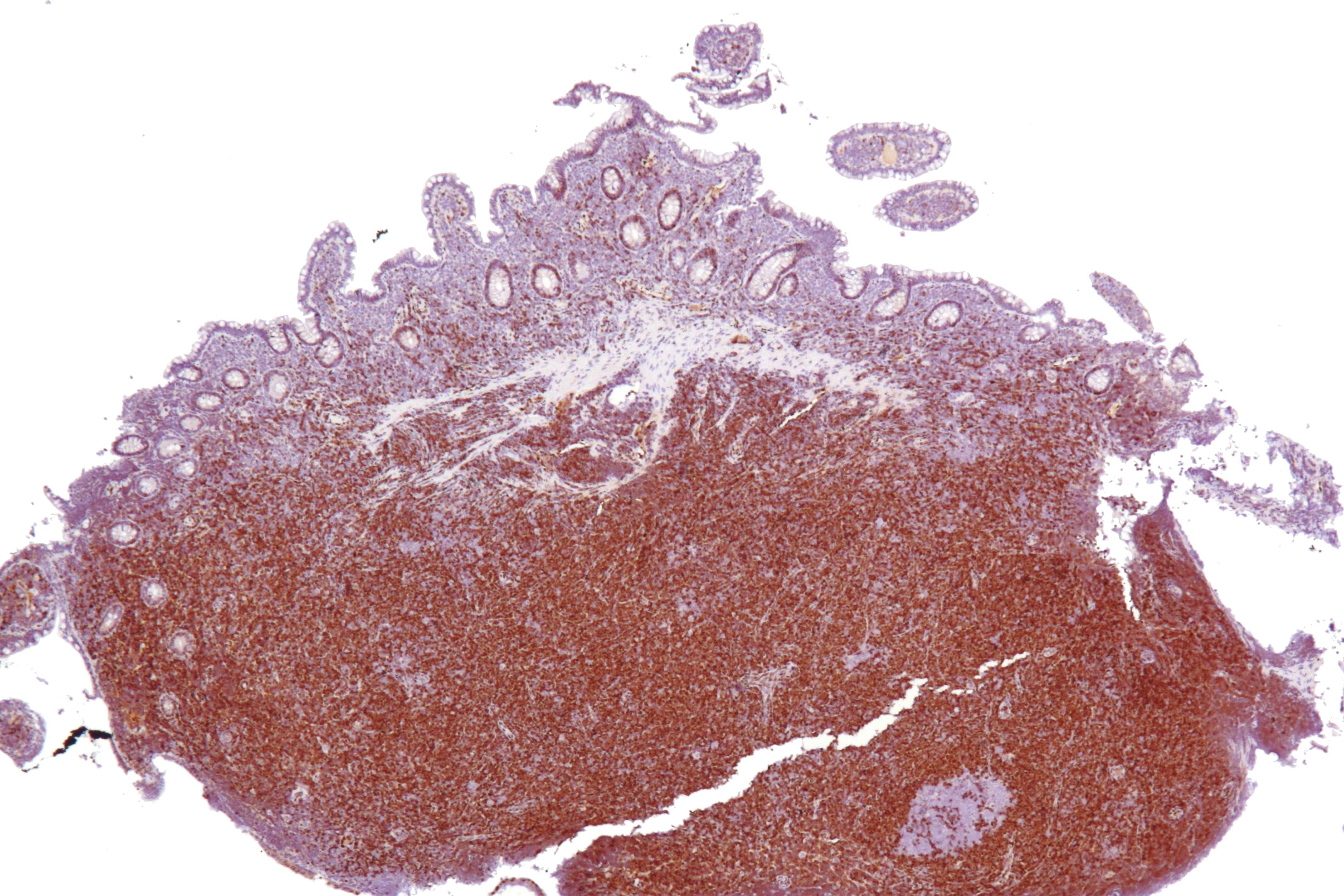 Low magnification micrograph of mantle cell lymphoma of the terminal ileum. Endoscopic biopsy. Cyclin D1 immunostain. Histomorphologic features: Monomorphic small lymphoid cells less than twice the size of a resting lymphocyte. Abundant mitoses. Sclerosed blood vessels. Scattered epithelioid histiocytes. Immunohistochemical staining: Positive: Cyclin D1, CD5, CD43, CD20, CD45. Negative: CD23. Molecular features: t(11;14)(q13;q32). CCND1/IGHG1 fusion gene.[1] Related images Low mag. Intermed. mag. Low mag. - cyclin D1. Intermed. mag. - cyclin D1. References ↑ URL: Accessed on: 18 August 2010.